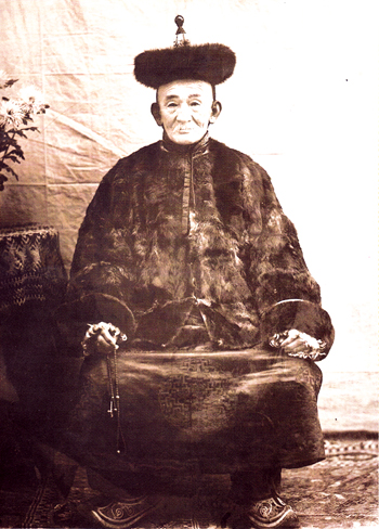 Shazodba G.Badamdorj (?－1920) Монгол: Гончигжалцангийн Бадамдорж